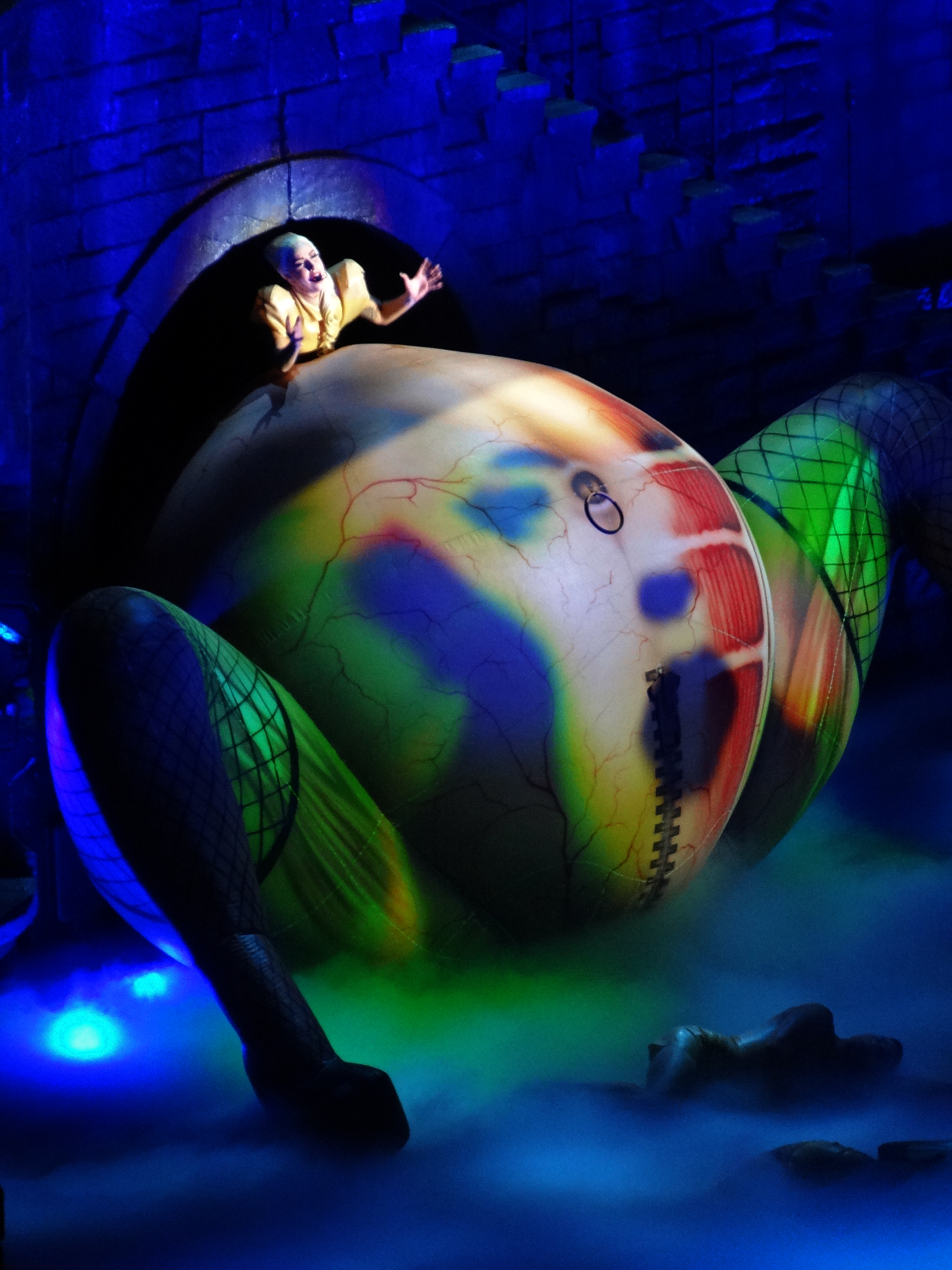 Lady Gaga beginning the performance of "Born This Way" on The Born This Way Ball Tour.